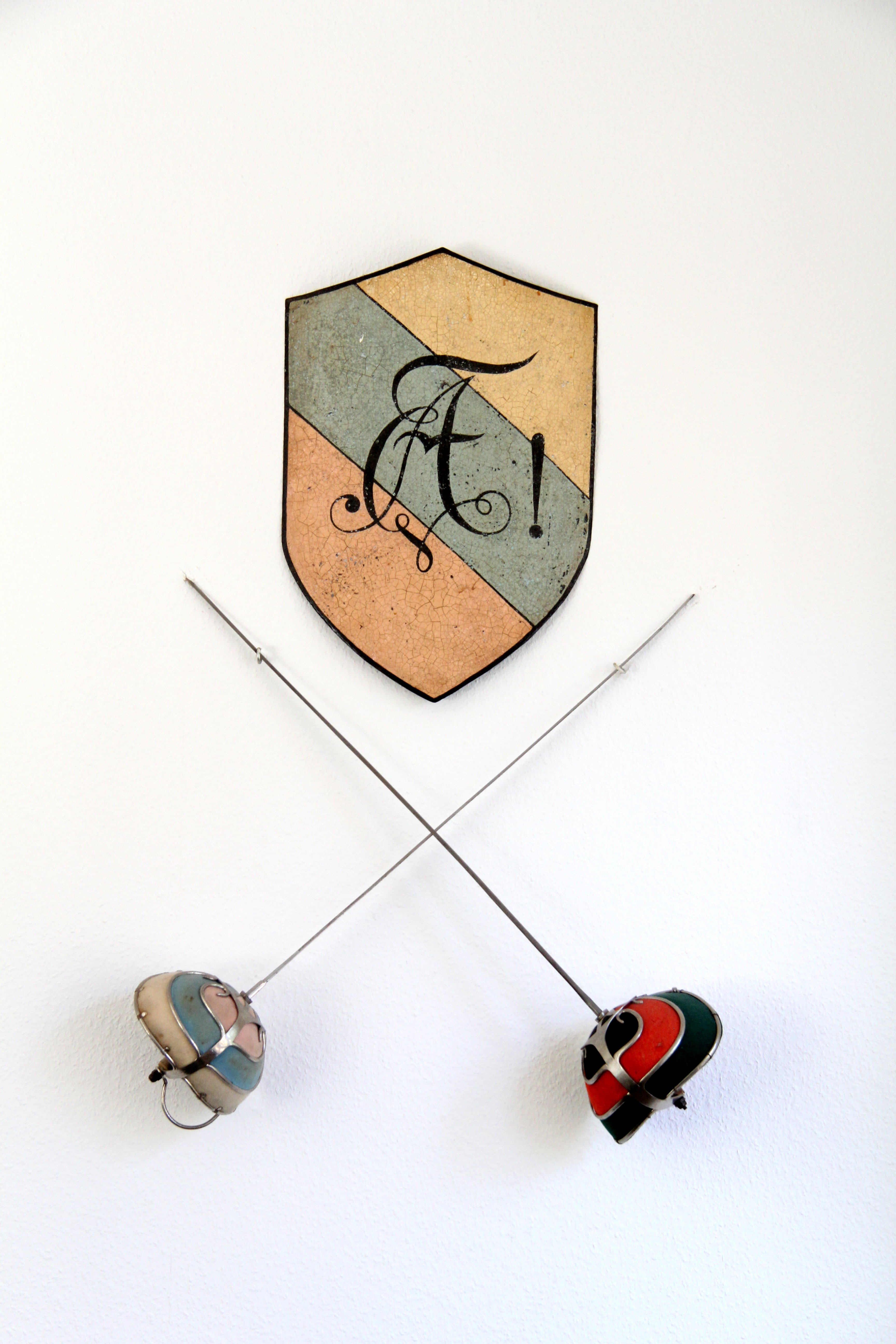 Shield with colours of Corps Alemannia Karlsruhe together with two fencing swords hanging in the staircase of its house, Nowackanlage 4, Karlsruhe / Germany